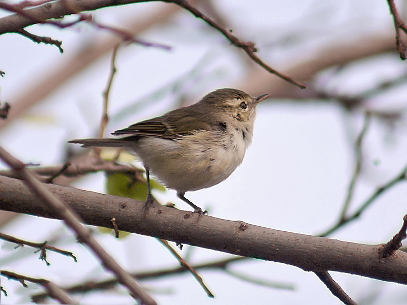 Greenish Warbler Phylloscopus trochiloides in Bhopal, Madhya Pradesh, India.